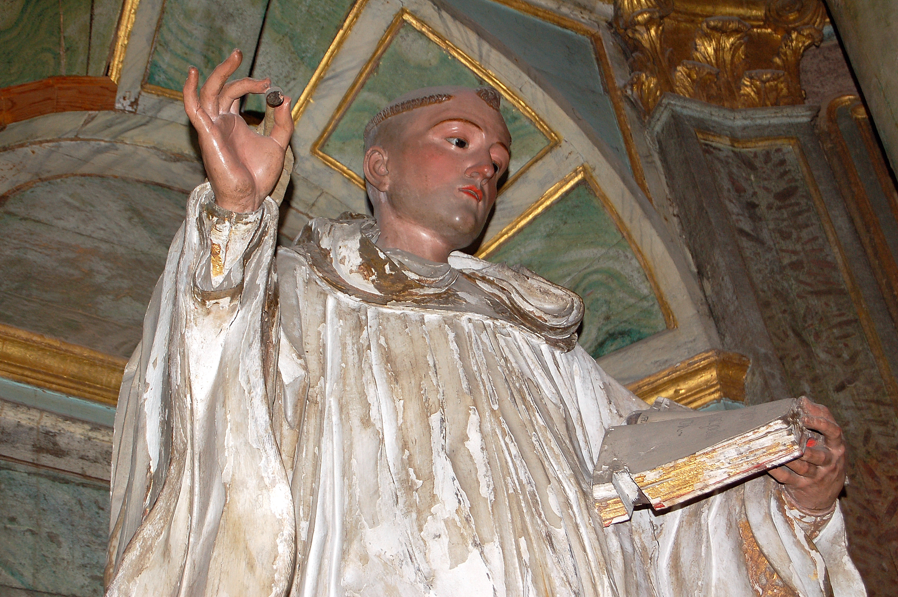 San Bernardo da escola de Xosé Ferreiro na igrexa do mosteiro de San Martiño Pinario en Santiago de Compostela